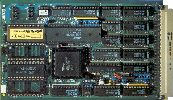 STEbus Z280 CPU on 100x160mm Eurocard. Designed by Arcom Control Systems. Low quality scan taken from catalogue cover.